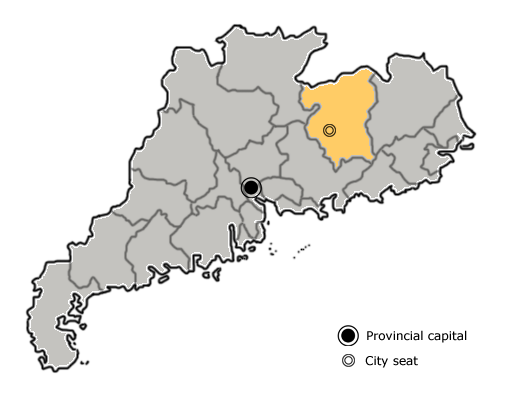 The prefecture-level city of Heyuan is highlighted on this map of Guangdong province, People's Republic of China.